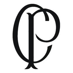 The first logo of SC Corithians Paulista of Sãu Paulo, Brazil.